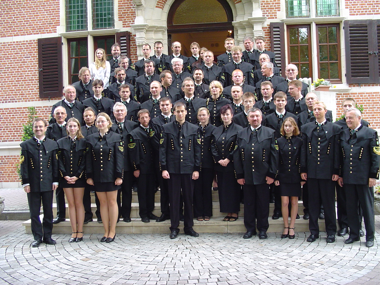 Májovák in Belgium